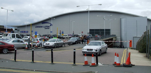 Luton Airport The check-in building.